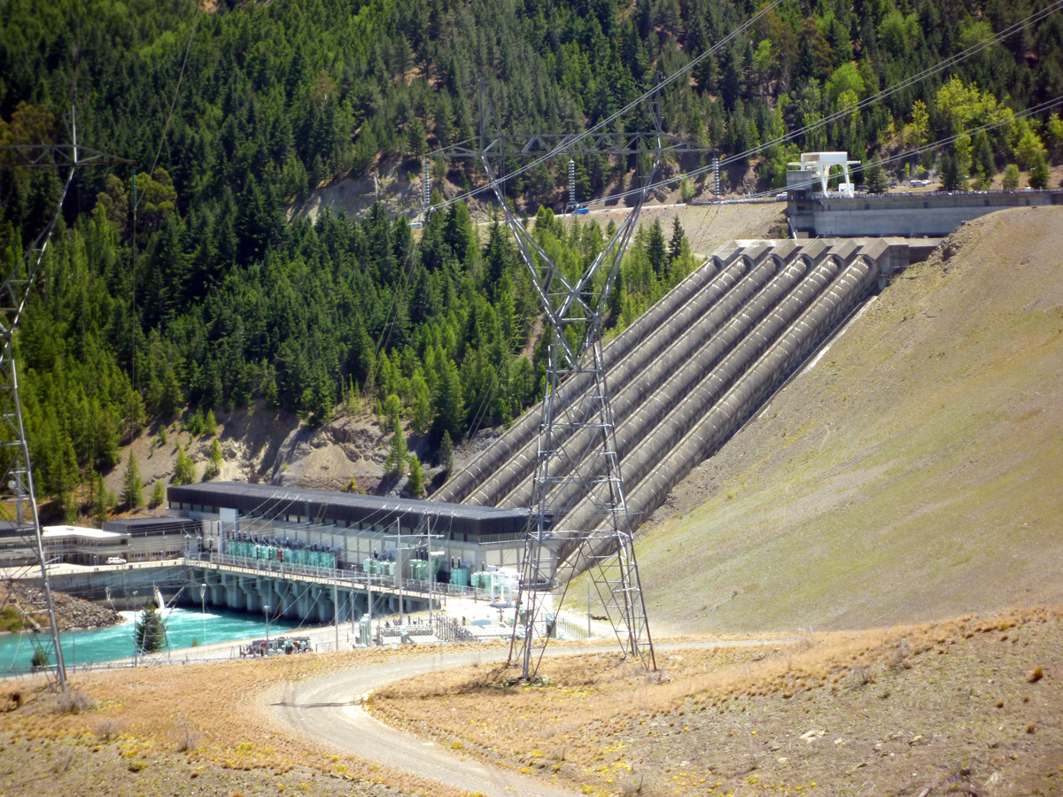 Benmore hydroelectric power station and part of the earth dam, Lake Benmore, South Island, New Zealand.